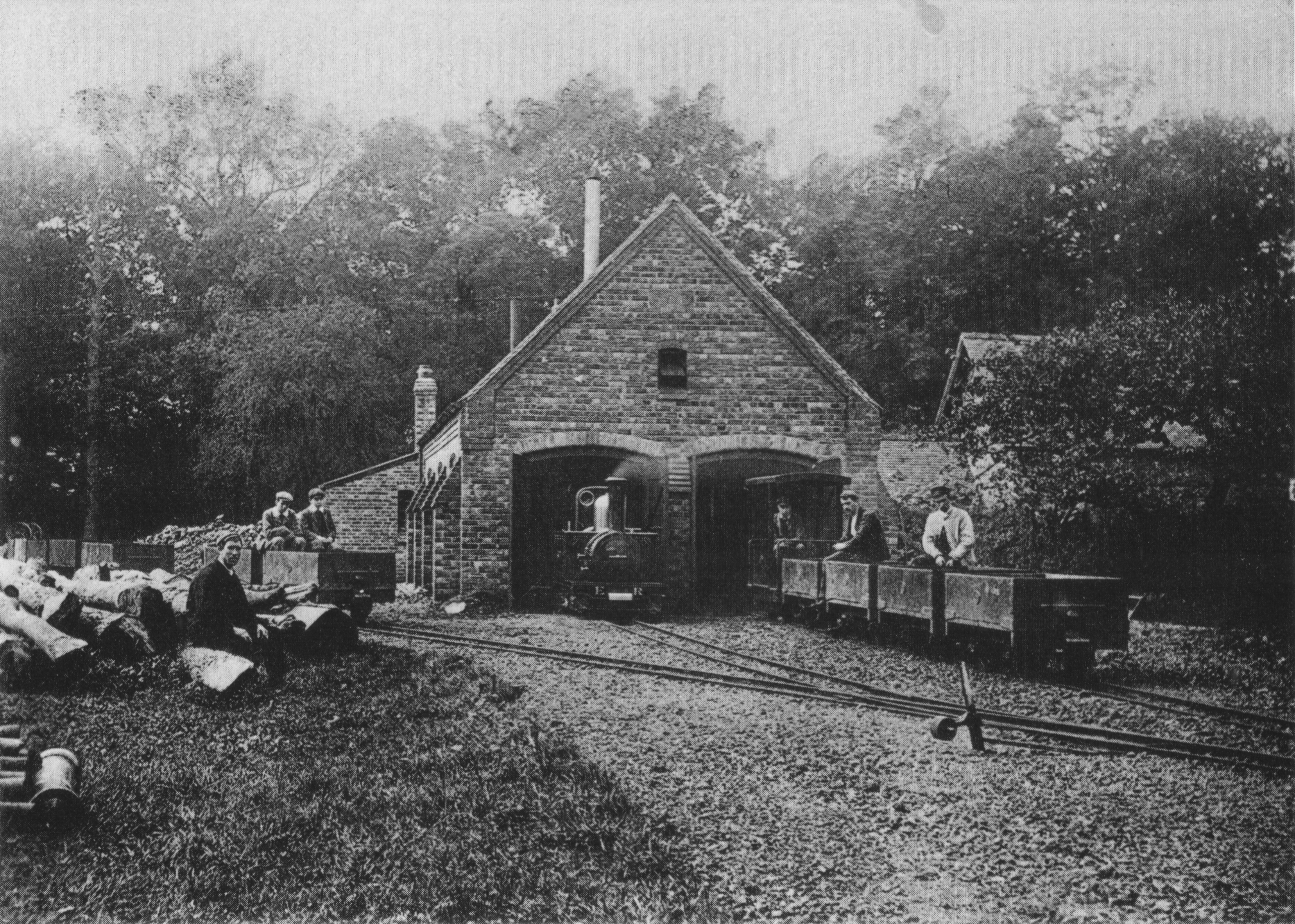 Belgrave engine shed, Eaton Hall Railway, Plate XI (Minimum Gauge Railways).png